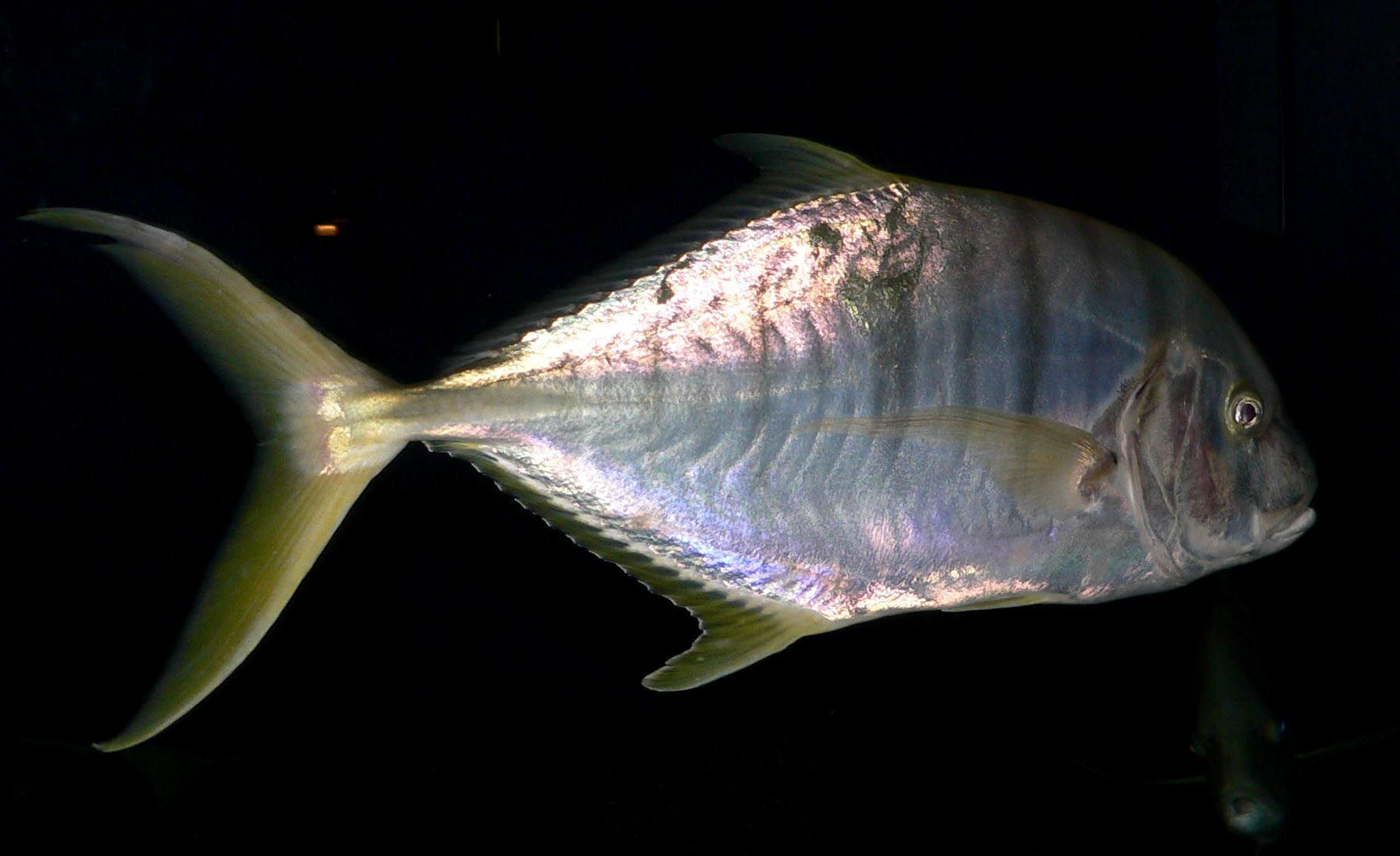 Photo of Gnathanodon speciosus (golden trevalley) at the Birch Aquarium in San Diego